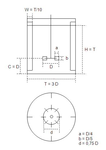 Mixing - standard geometry.